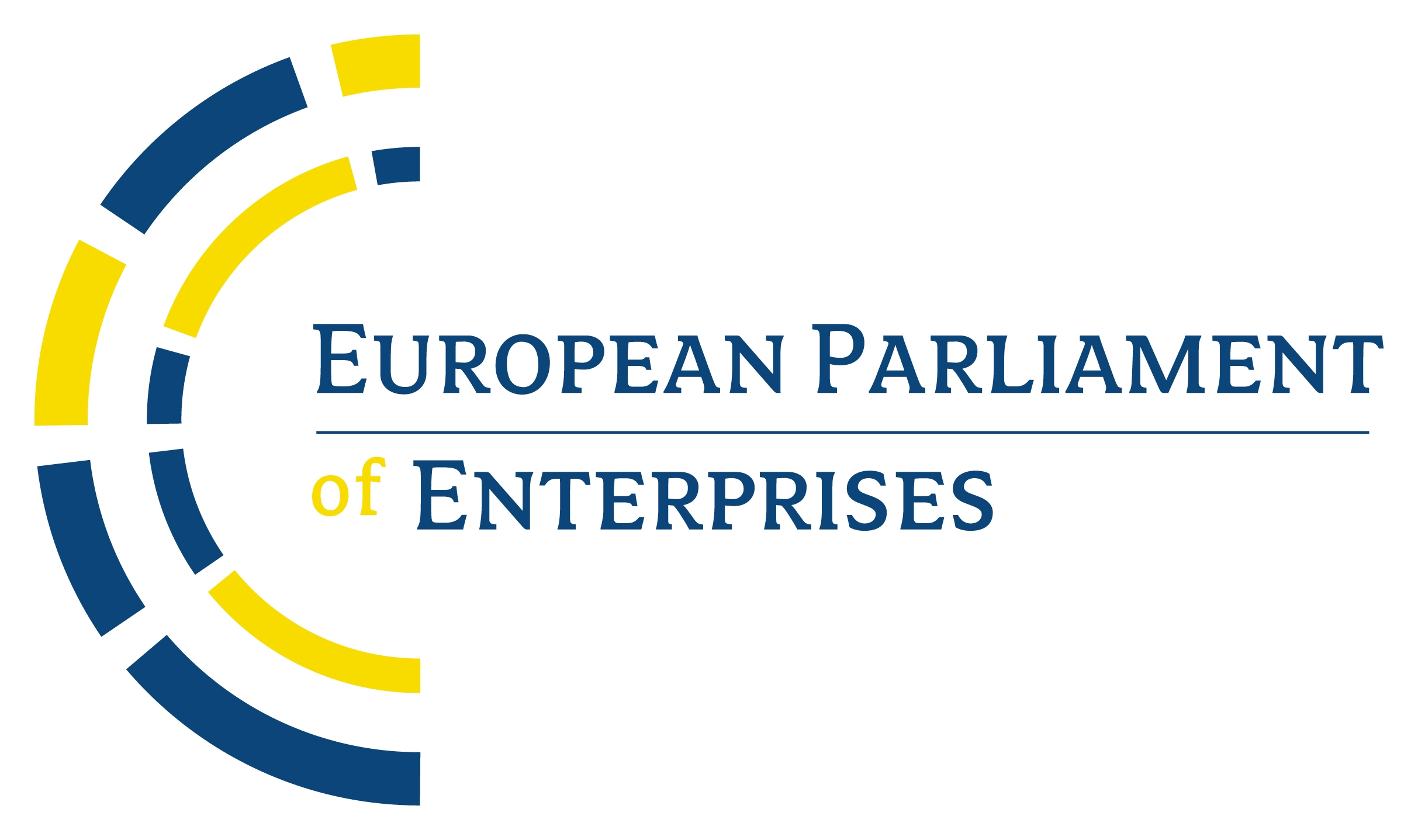 European Parliament of Enterprises logo